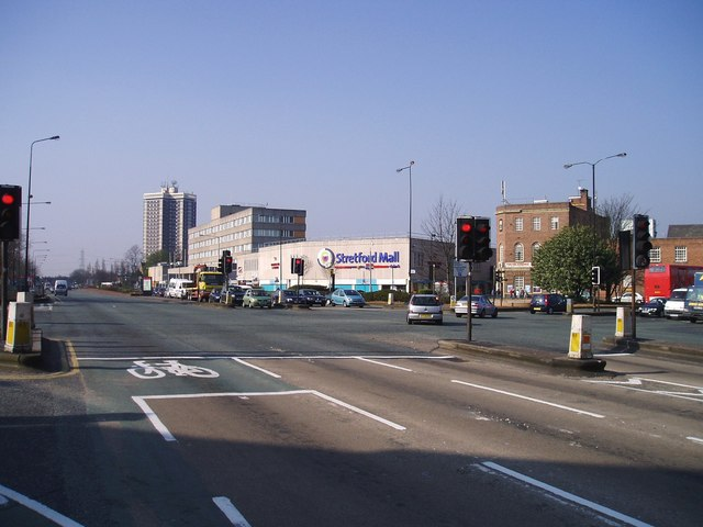 Stretford Mall viewed from the A56 road junction with the A5145. Stretford Post Office (now relocated to WHSmith inside the mall) is on the right, and the tall building in the background is Stretford House.